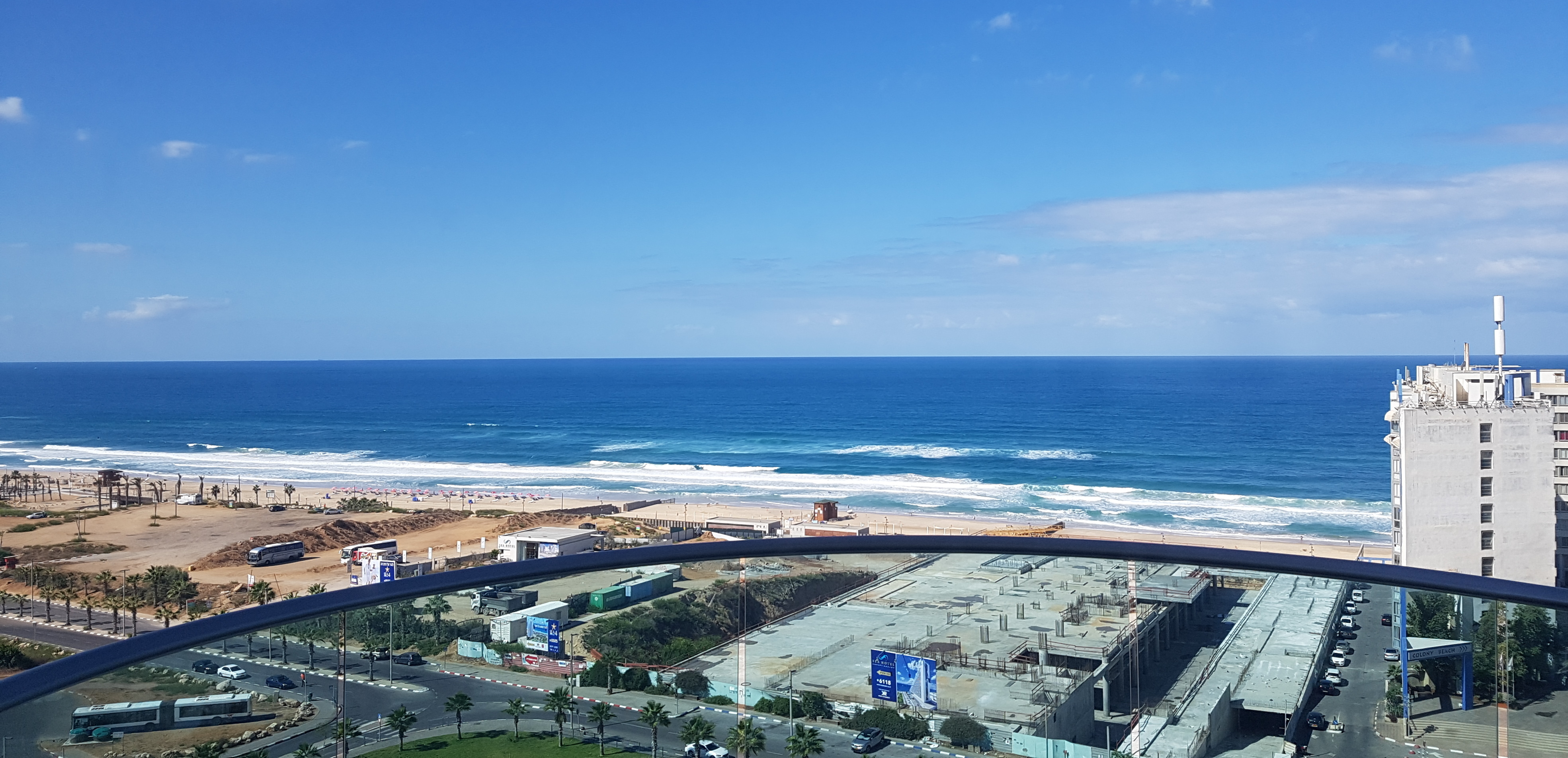 חוף בת ים